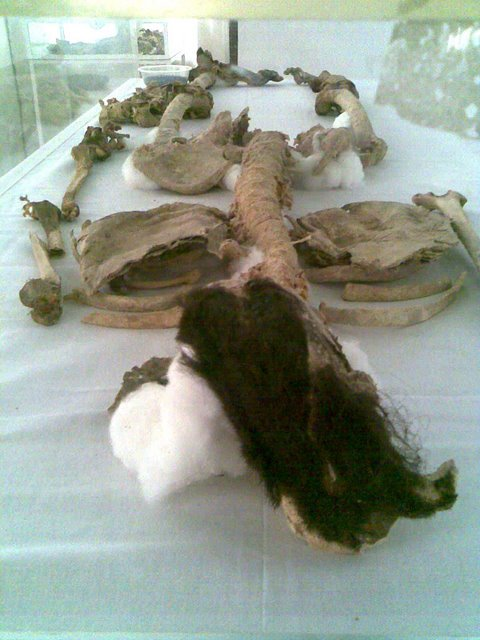 Remains of Salt Man 2 on display at Zanjan. One of the Saltmen found in 2004 in Douzlākh salt mines near Chehrābād, located on the southern part of the Hamzehlu village, on the west side of the city of Zanjan, Zanjan Province in Iran.